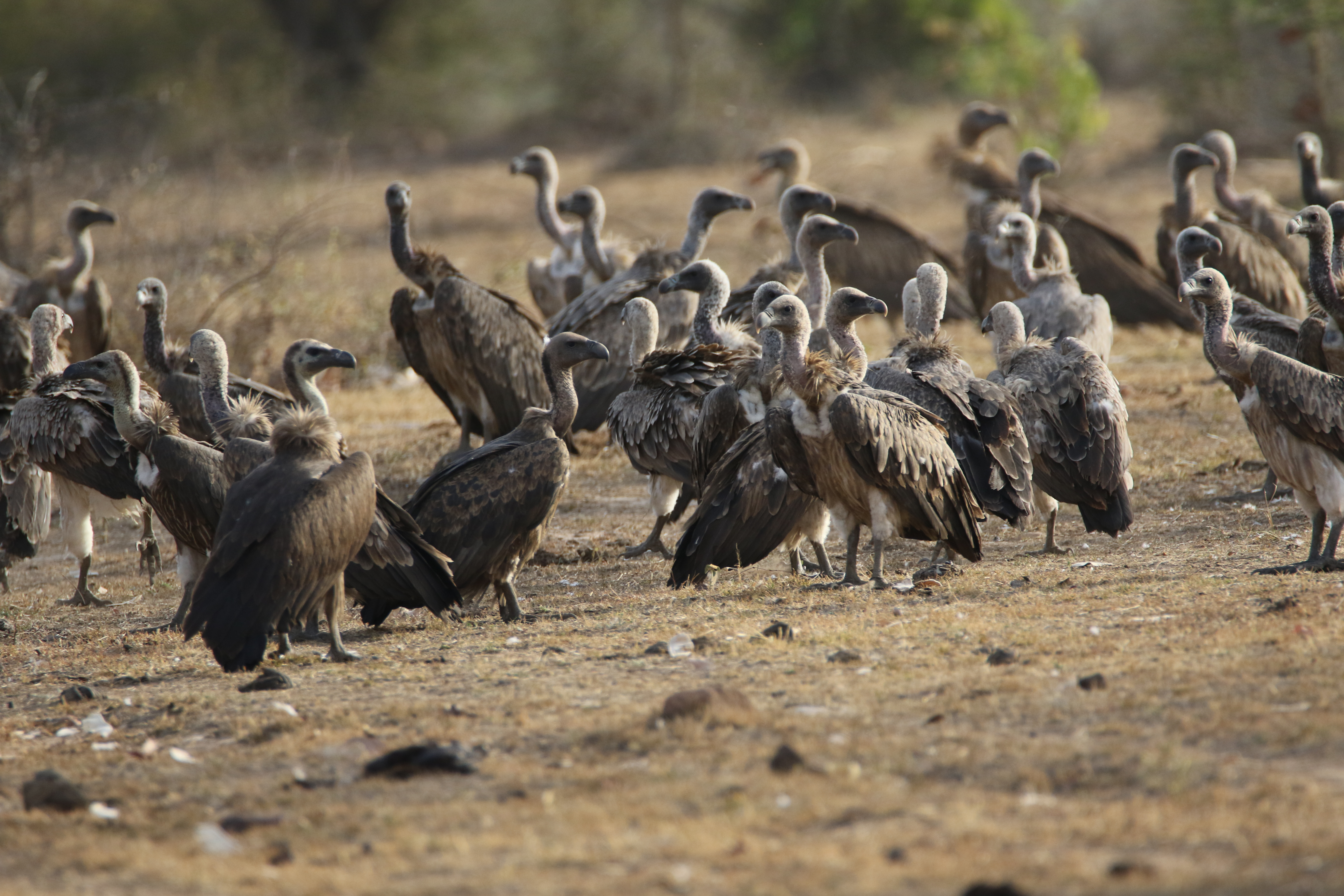 The picture f Indian Vultures was taken on 25th May 2015 in Madhav National Park ,Shivpuri, M.P. THey are now seen in large number but were rarely visible earlier. This could happen because of the effort of Park management. Caracus of dead animals are dumped in ths place which is suitable a suitable habitat for these vultres. All efforts are made to give them right environment so that this species can survive and multifly.